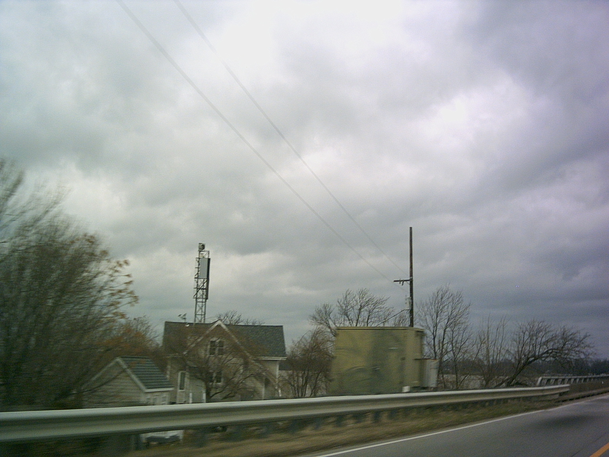 Image taken by me for Wikipedia.